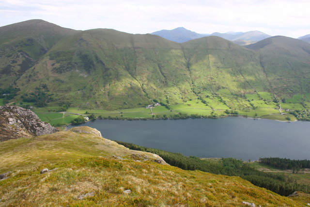 Llyn Cwellyn and the Moel Eilio Ridge, near to Betws Garmon, Gwynedd, Great Britain. A northeastern view of Llyn Cwellyn and the entire Moel Eilio Ridge taken from near the summit of Foel Rudd.